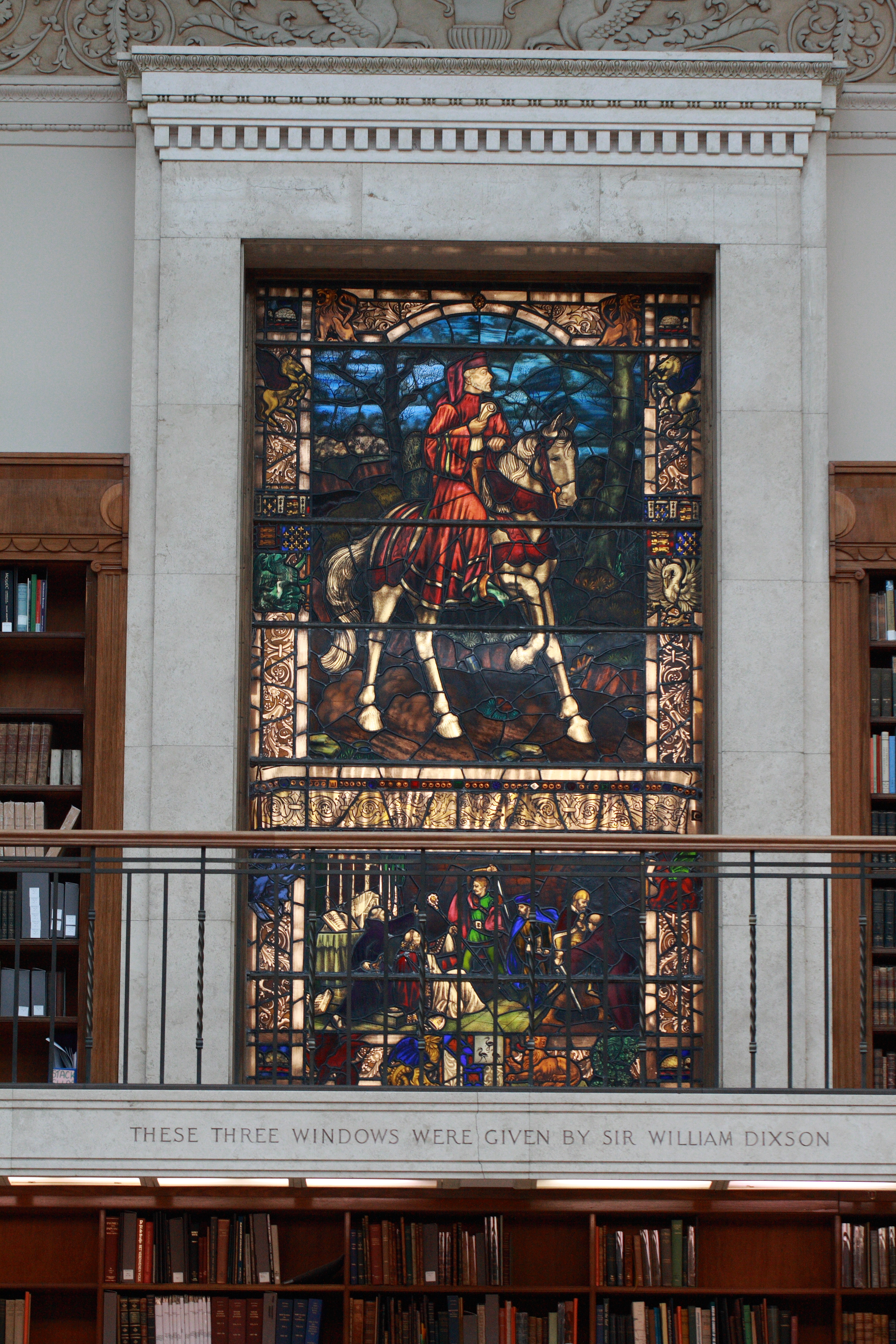 Detail of the Mitchell Library at the State Library of New South Wales.